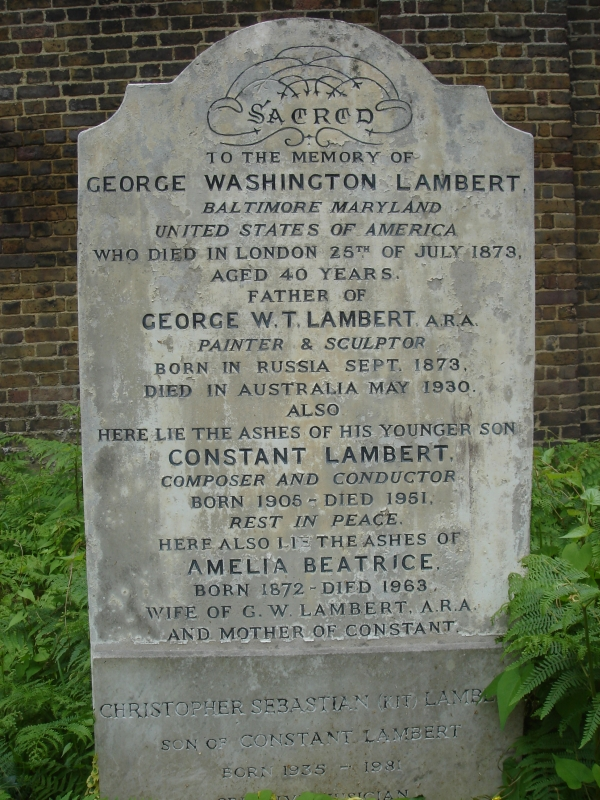 A photo that I have taken.